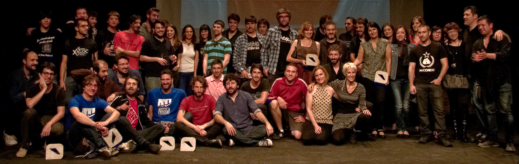 winners of the Premis Ovidi Montllor 2014 in Valencia (capital), including members from Arthur Caravan, Obrint Pas, Sitja and Tres Fan BallOccitan : guanhadors des Prèmis Ovidi 2014 en Valéncia, damb membres des grops Arthur Caravan, Obrint Pas, Sitja e Tres Fan Ball